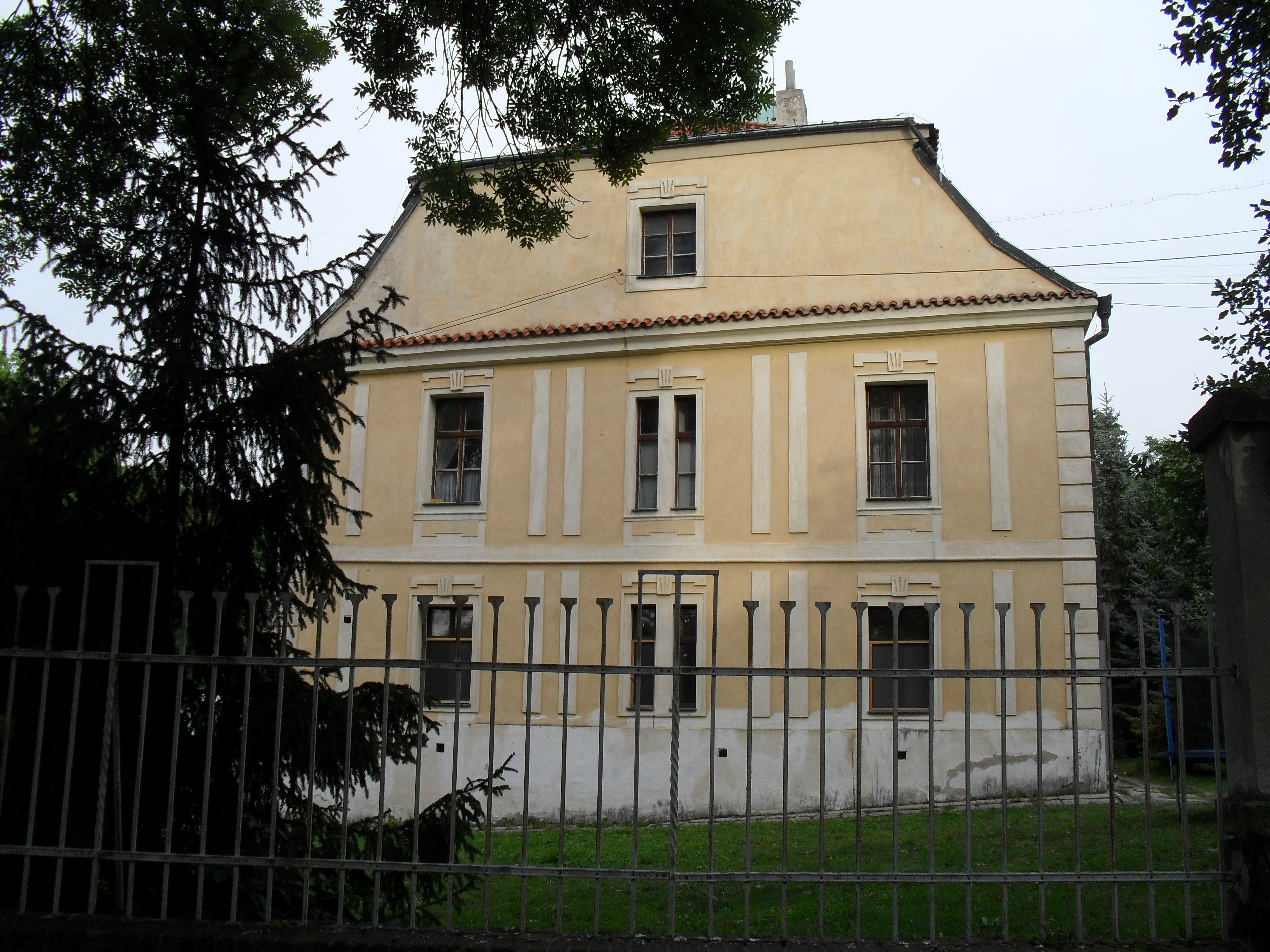 Bohnice Chateau